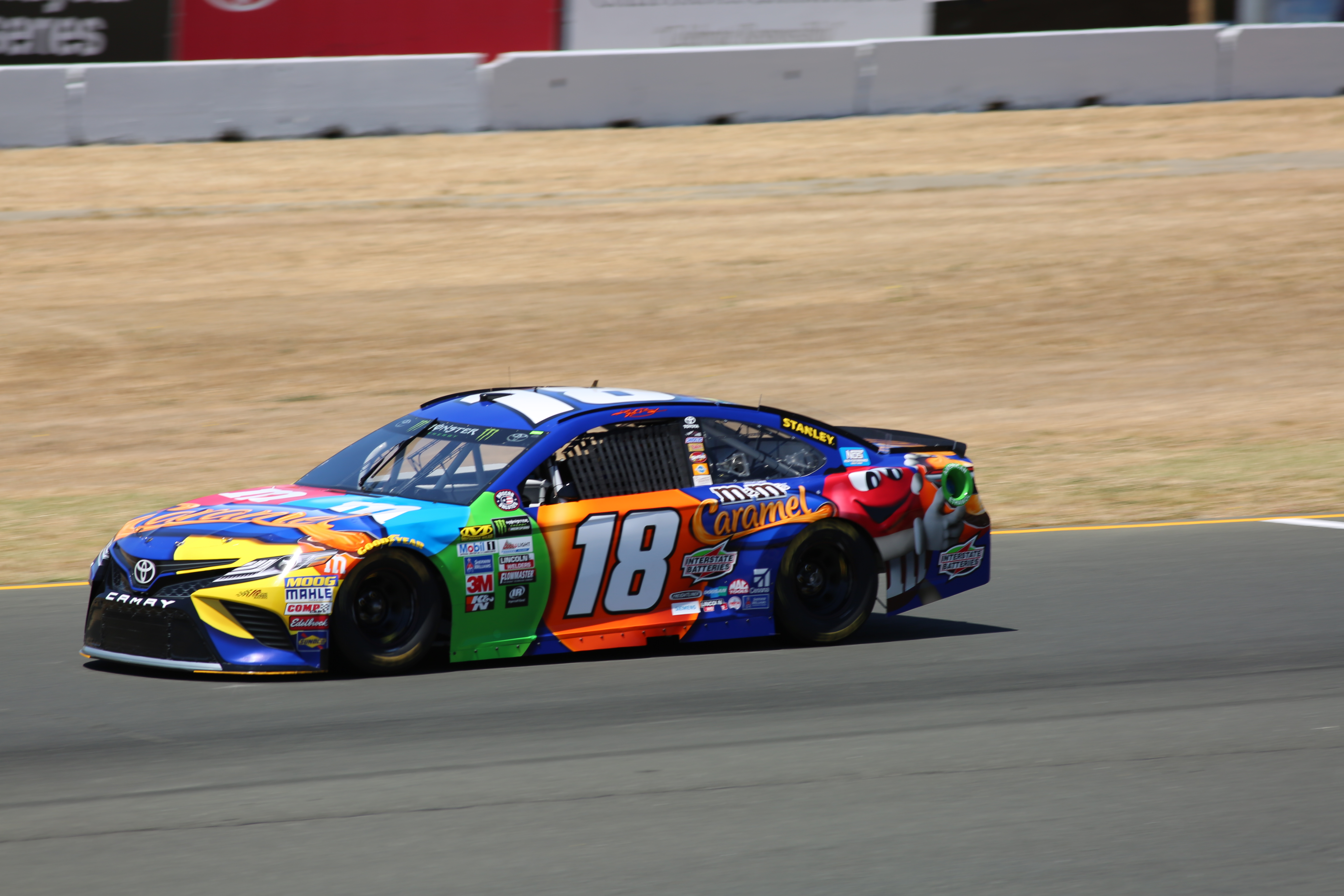 Kyl Busch's No. 18 M&M's Caramel Toyota at Sonoma Raceway in 2017